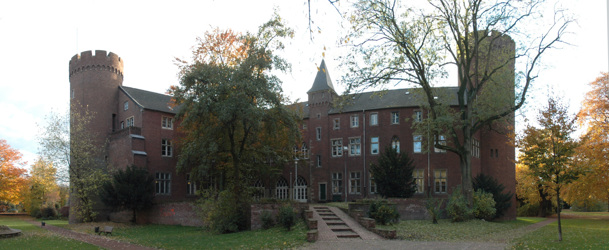 Castle of Kempen, northern aspect This image shows a heritage building in Germany, located in the North Rhine-Westphalian city Kempen (no. 2).